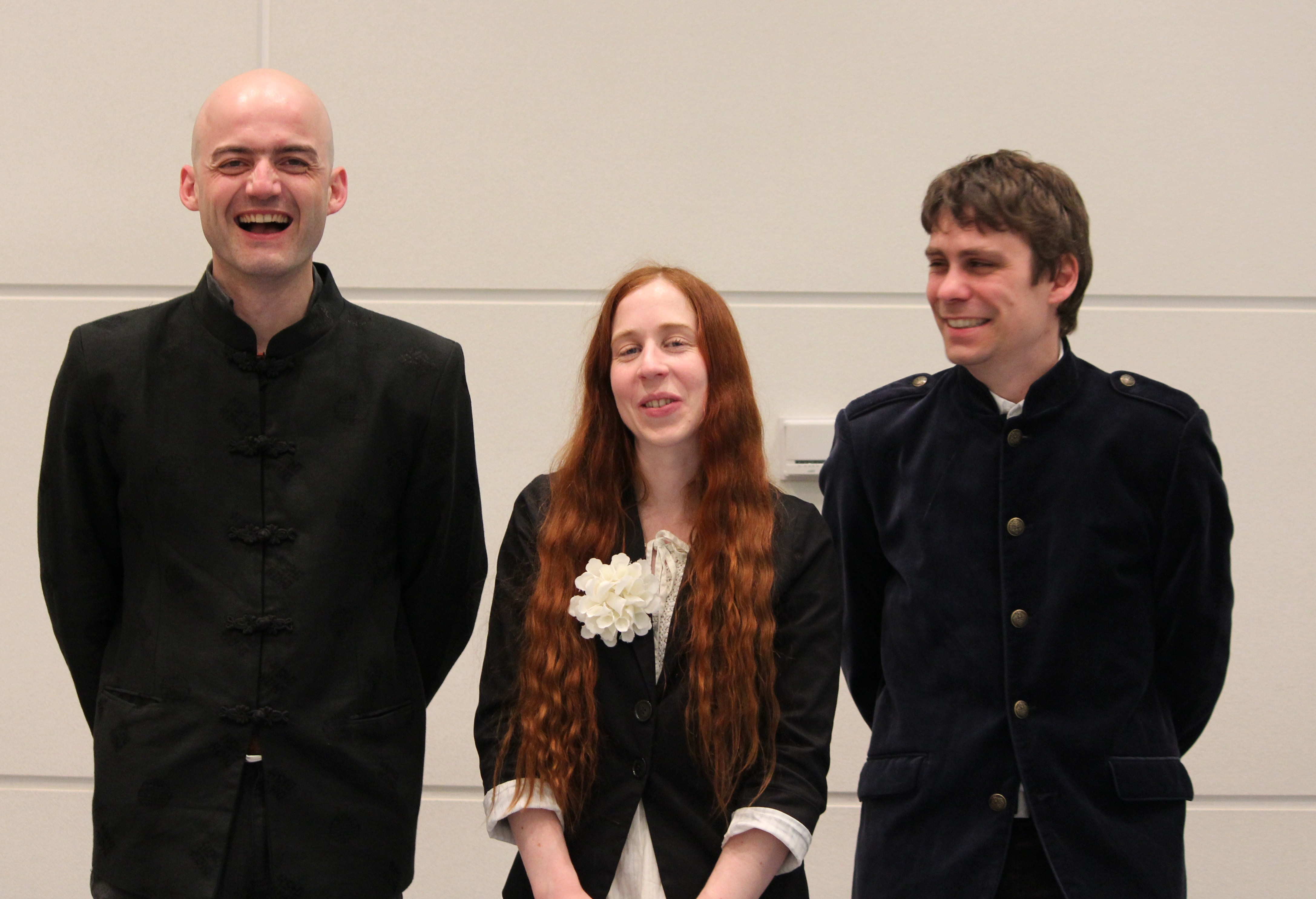 Cécile Corbel and her group during a show held in Tôkyô for the St-Yves 2010